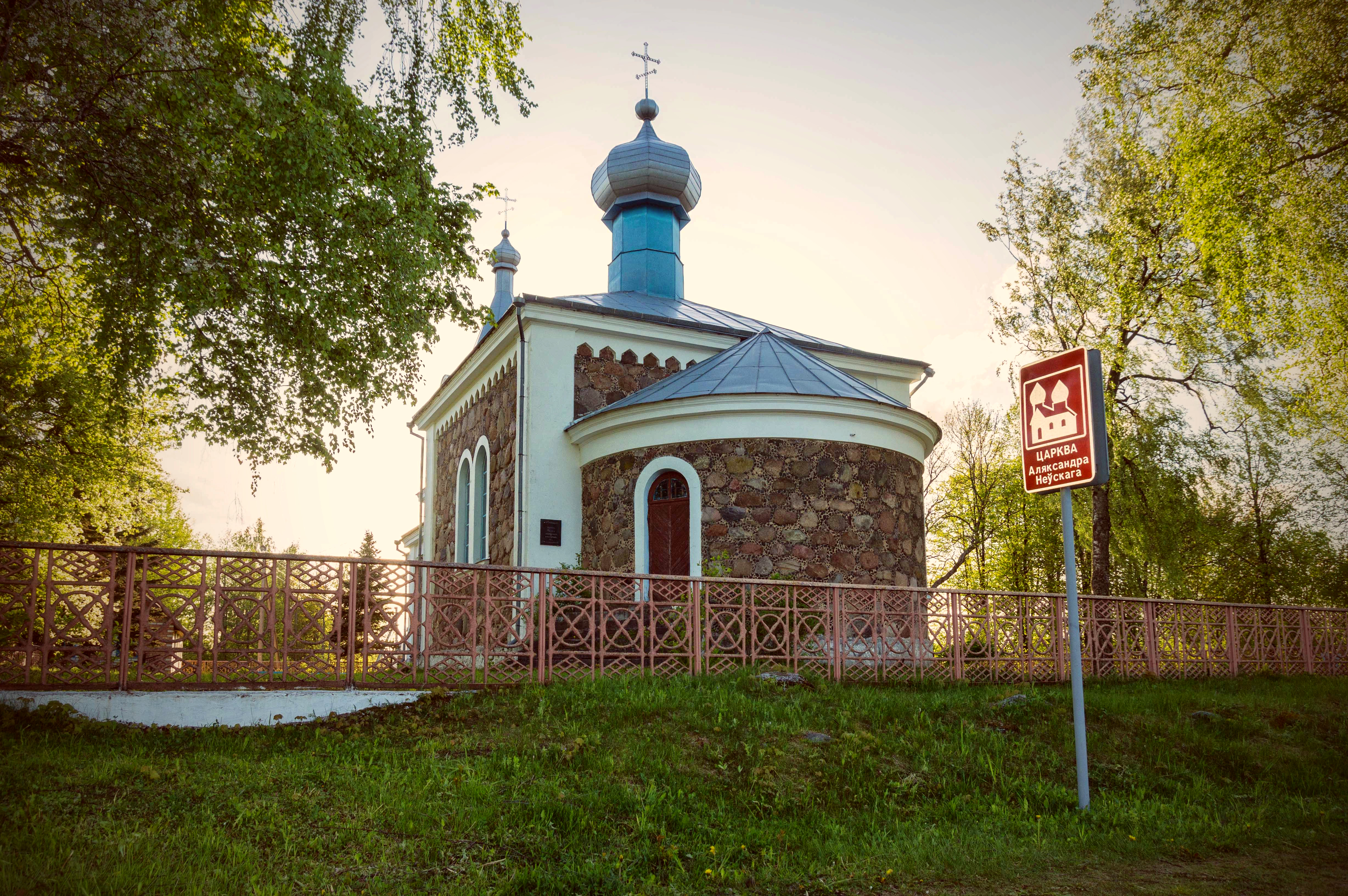 Slabada. Orthodox church of St. Aliaksandar Neuski